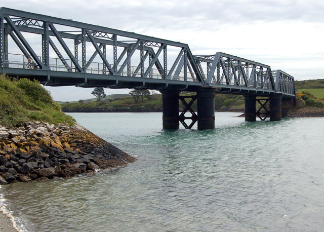 This former-LSWR railway bridge over Little Petherick Creek near Padstow is now part of the Camel Trail cycleway in Cornwall, UK